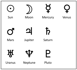 Astrological symbols representing the classical celestial bodies.